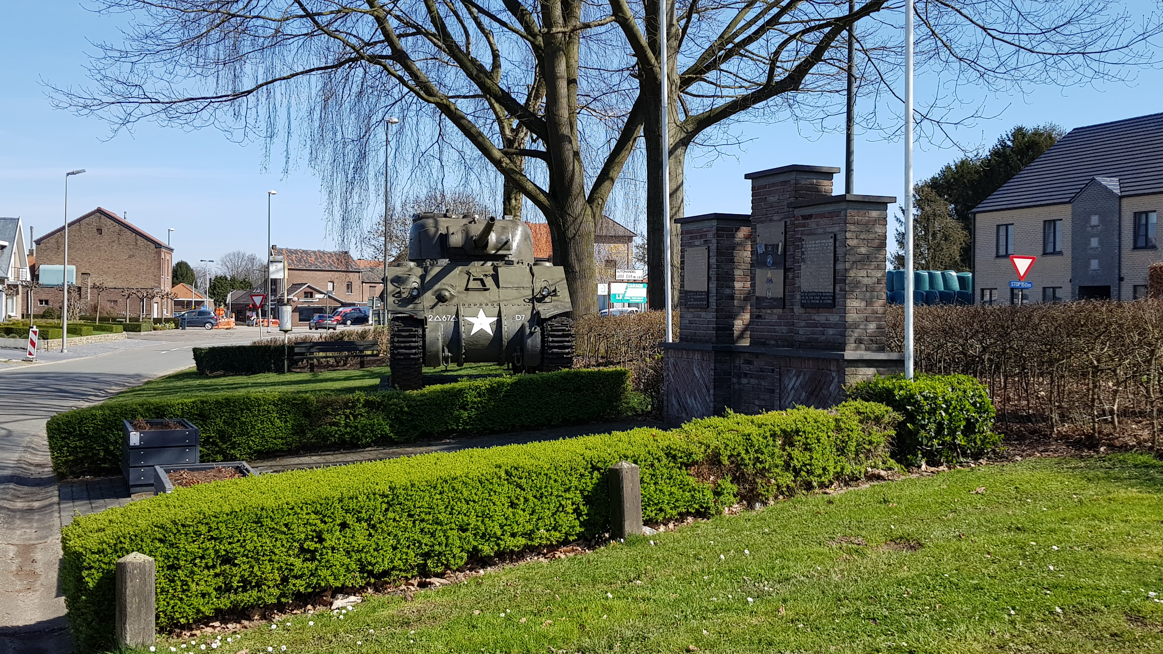 Tank memorial in Mopertingen, Bilzen, Belgium